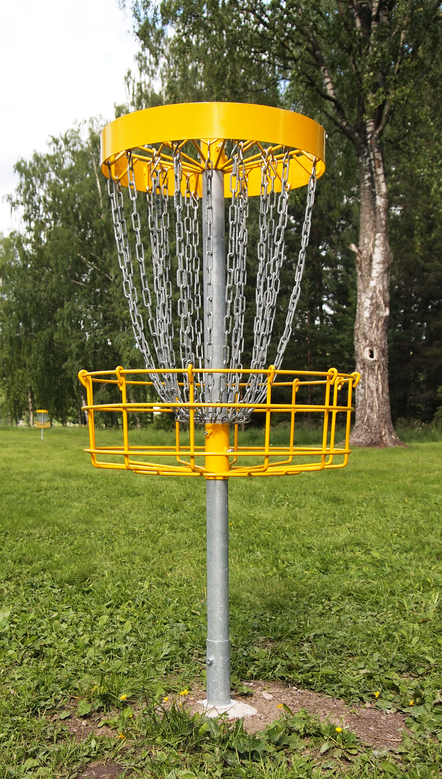 Disc golf basket